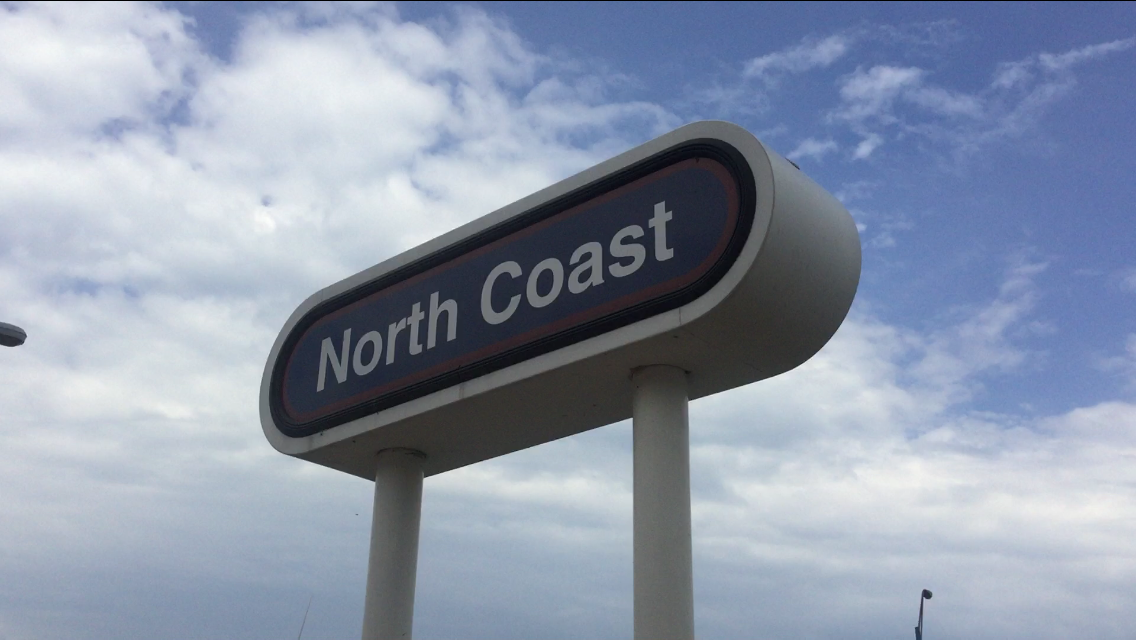 East 9th Street